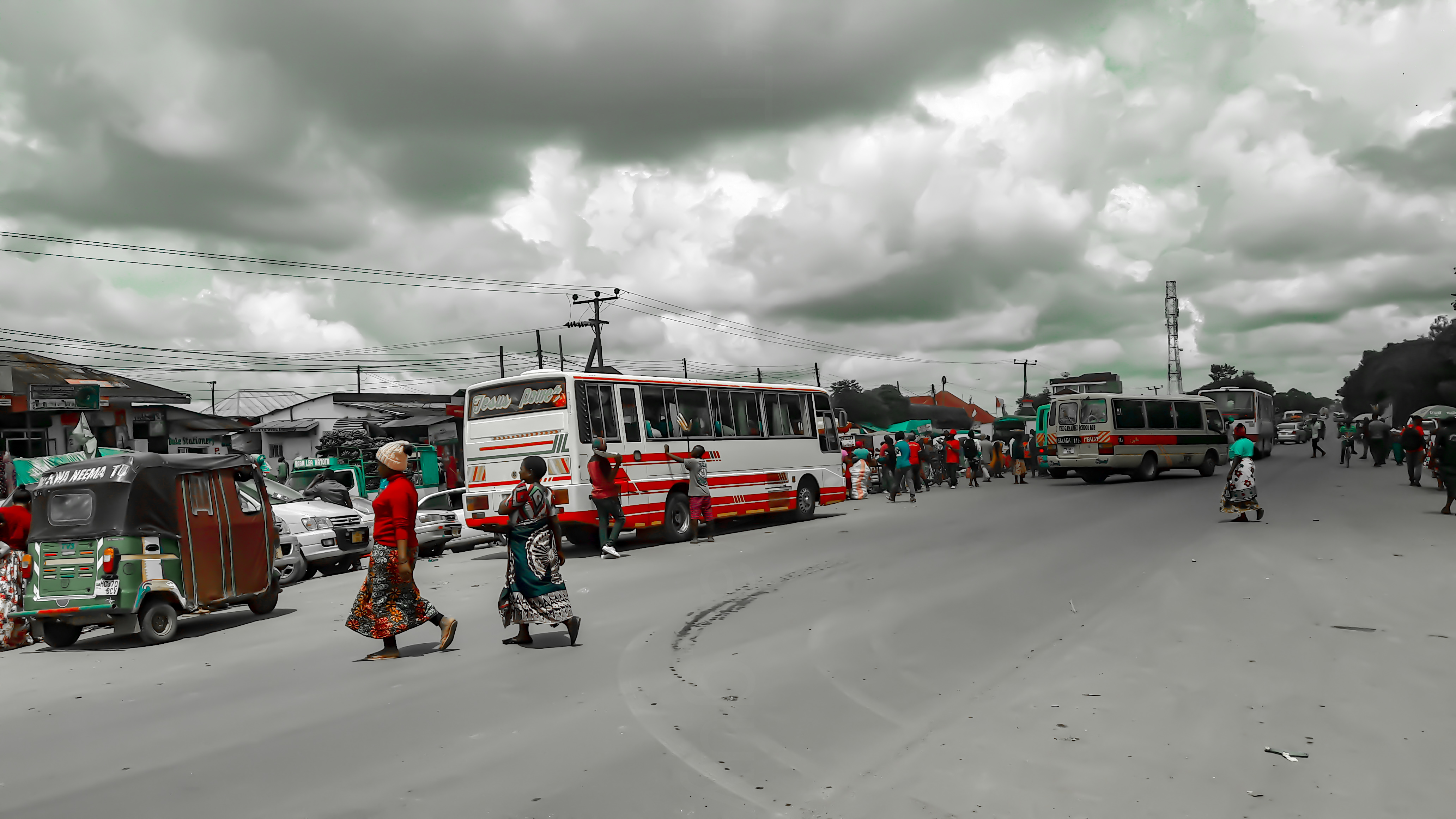 Transportation This is an image with the theme "Africa on the Move or Transport" from: Tanzania